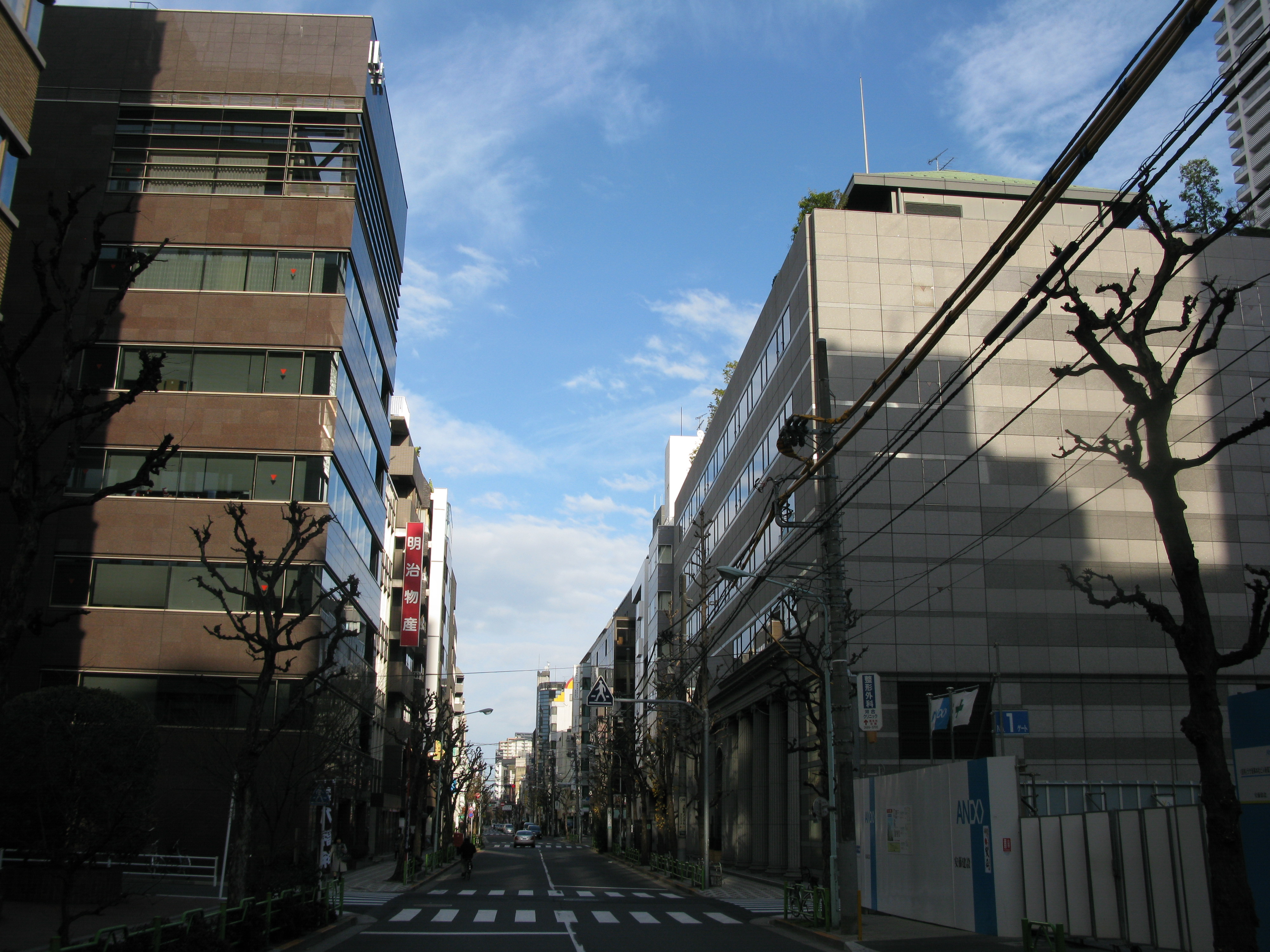 Nihonbashi-Kakigarachō(around the Tokyo Grain Exchange).